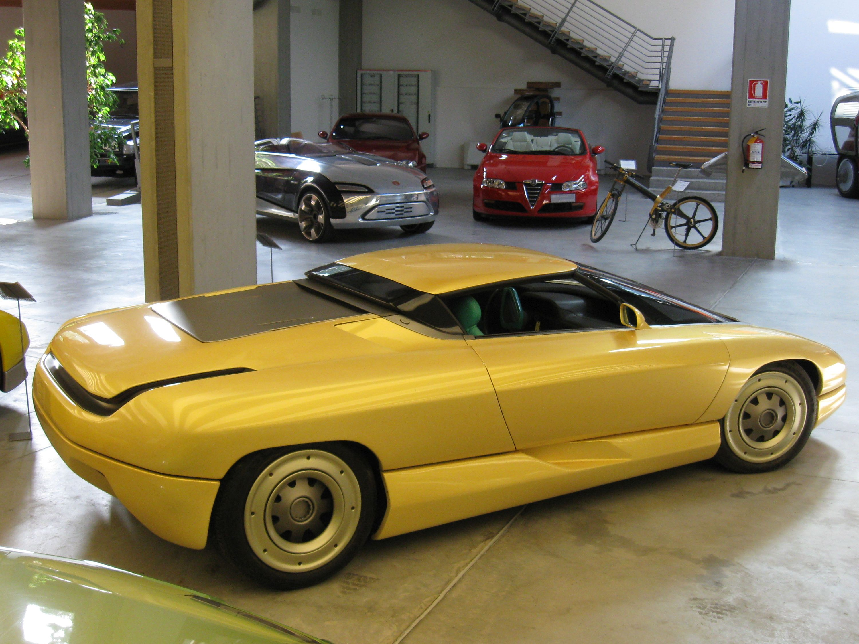 The Chevrolet Nivola concept car created by Bertone. The picture was taken in the Bertone basement museum - Grugliasco, Italy